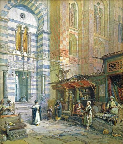 Bimaristan Qalawn (Al-Mansuri) circa 1900